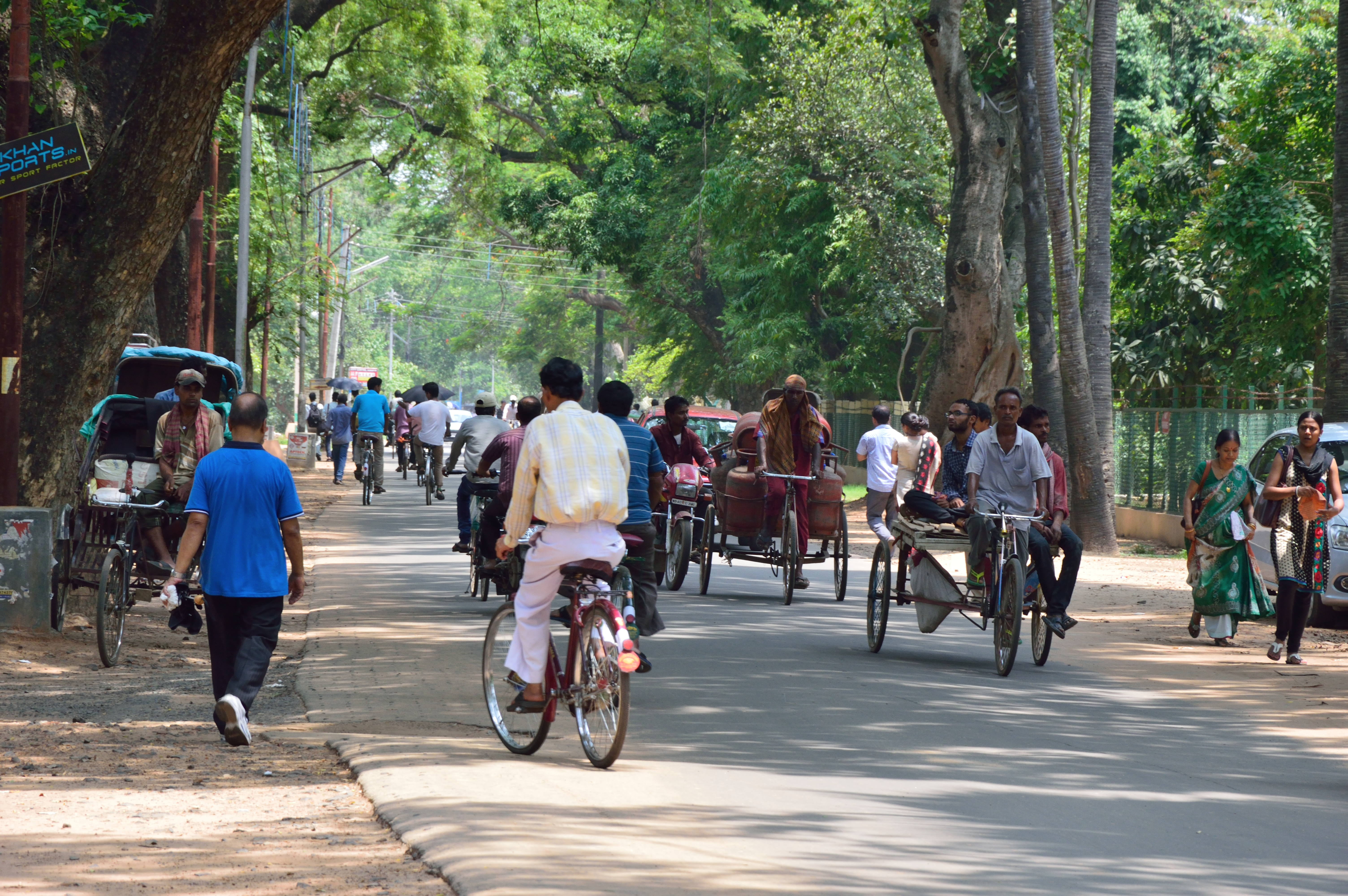 Shantiniketan (bn: শান্তিনিকেতন ) is a small town near Bolpur in the Birbhum district of West Bengal, India. It is famous for the Visva-Bharati University.